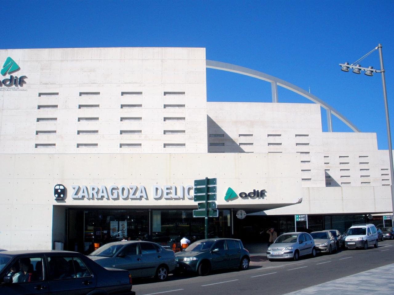 Zaragoza-Delicias railway station (Zaragoza, Spain).